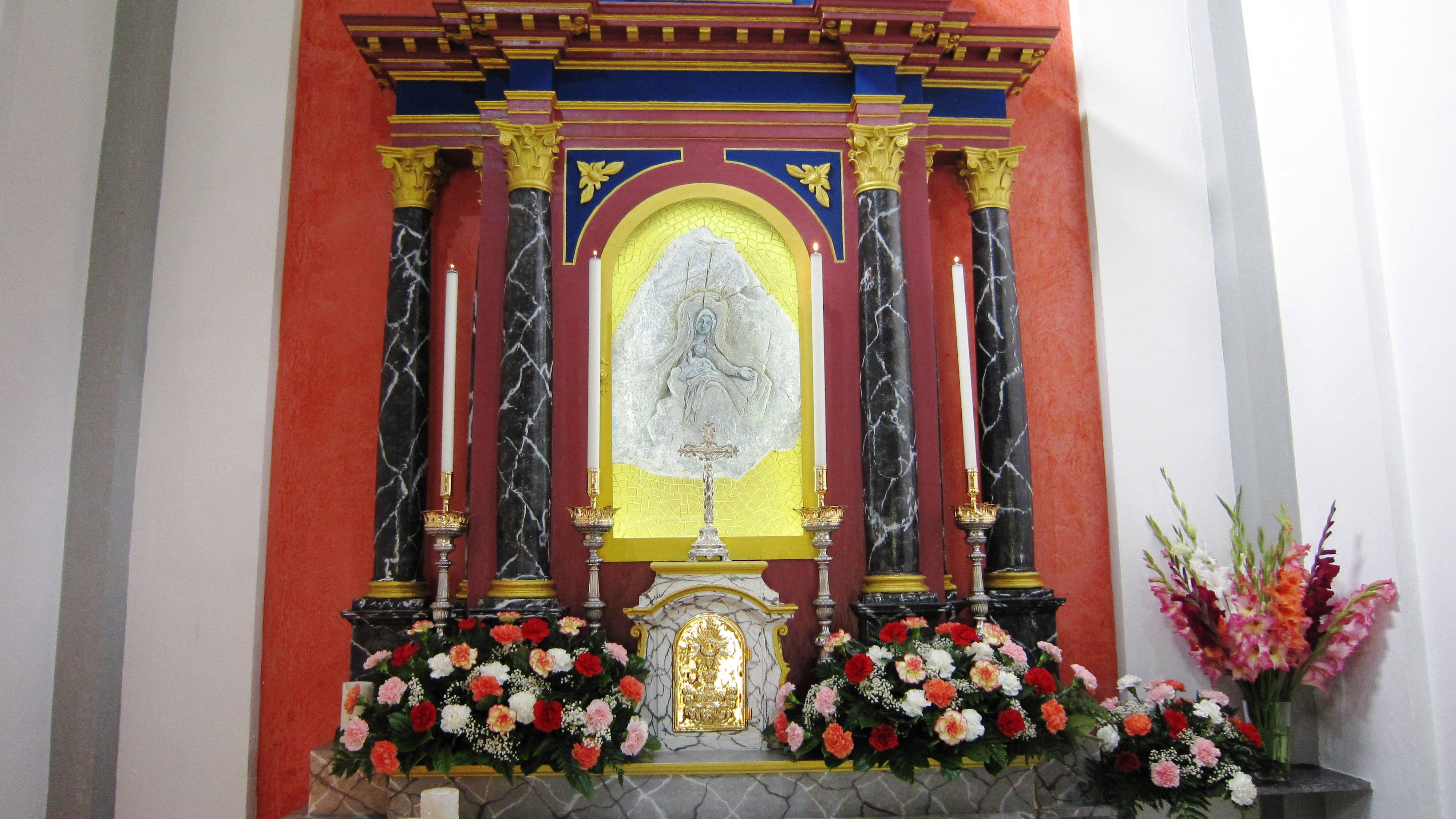 Paularo_madonna_del_sasso_altare